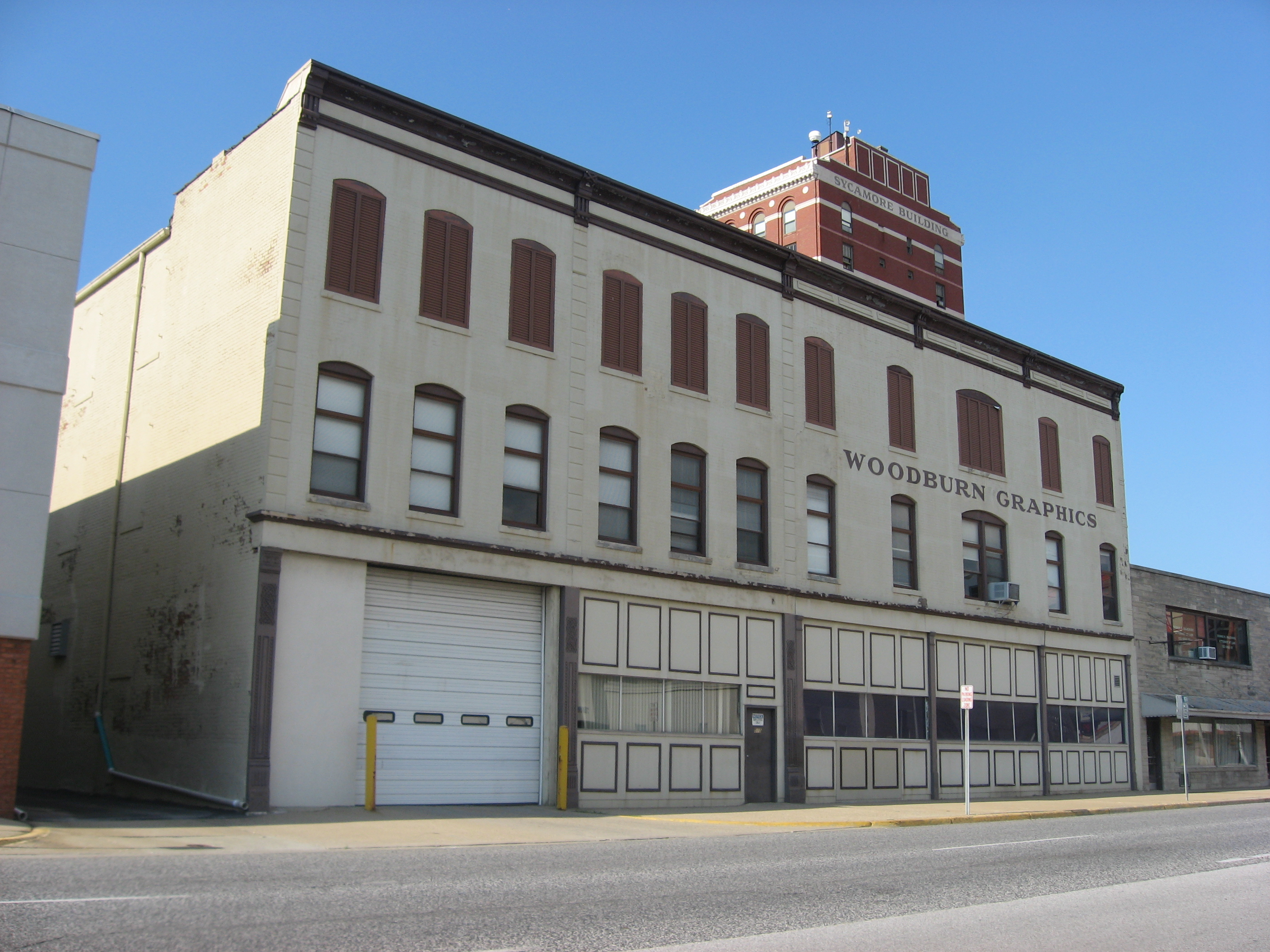 Front of the Building at 510-516 Ohio Street in Terre Haute, Indiana, United States. Built in 1891, it is listed on the National Register of Historic Places. Notice the Sycamore Building, another Register-listed property, in the background.